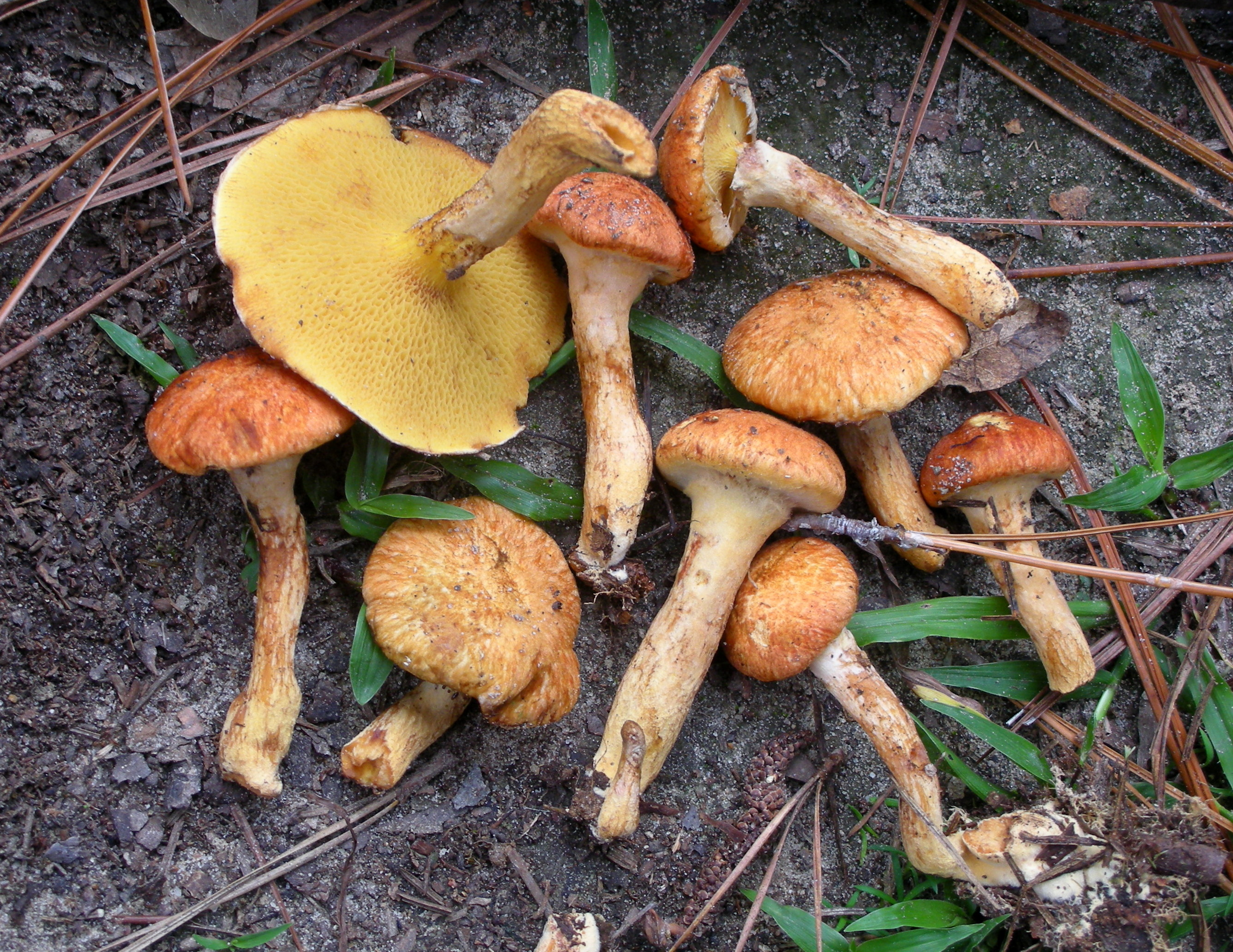 Fruit bodies of the fungus Suillus decipiens,, (Berk. & Curt.) Peck. Photographed in Big Thicket, Tyler Co., Texas, USA. "Notes: These were fairly common in the pine areas and match up pretty good with the descriptions. the caps were under 5cm across, dry, and with appressed scales. The spore print was brown to yellow brown and the pores large and irregular. The problem is that the spores seemed to be about the right shape, my measurements were smaller than the reported 9-12 X 3.5-5 microns. They seemed more in the range of 8 X 3 microns.??"